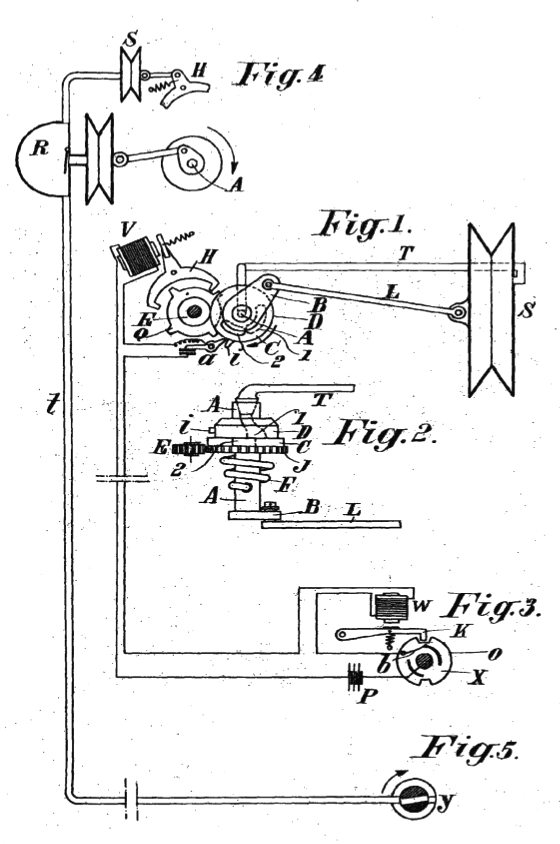 Pruszyński`s Kinofon 1907. Pneumatic apparatus for effecting the synchonization of a Kinematograph and the Phonograph.